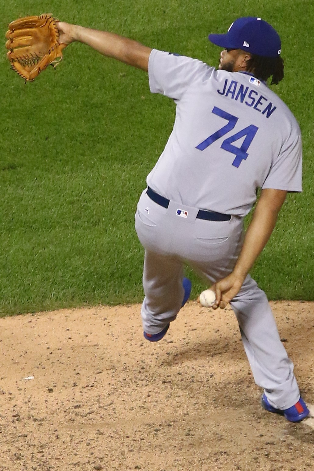 Kenley Jansen for the 2017 Los Angeles Dodgers